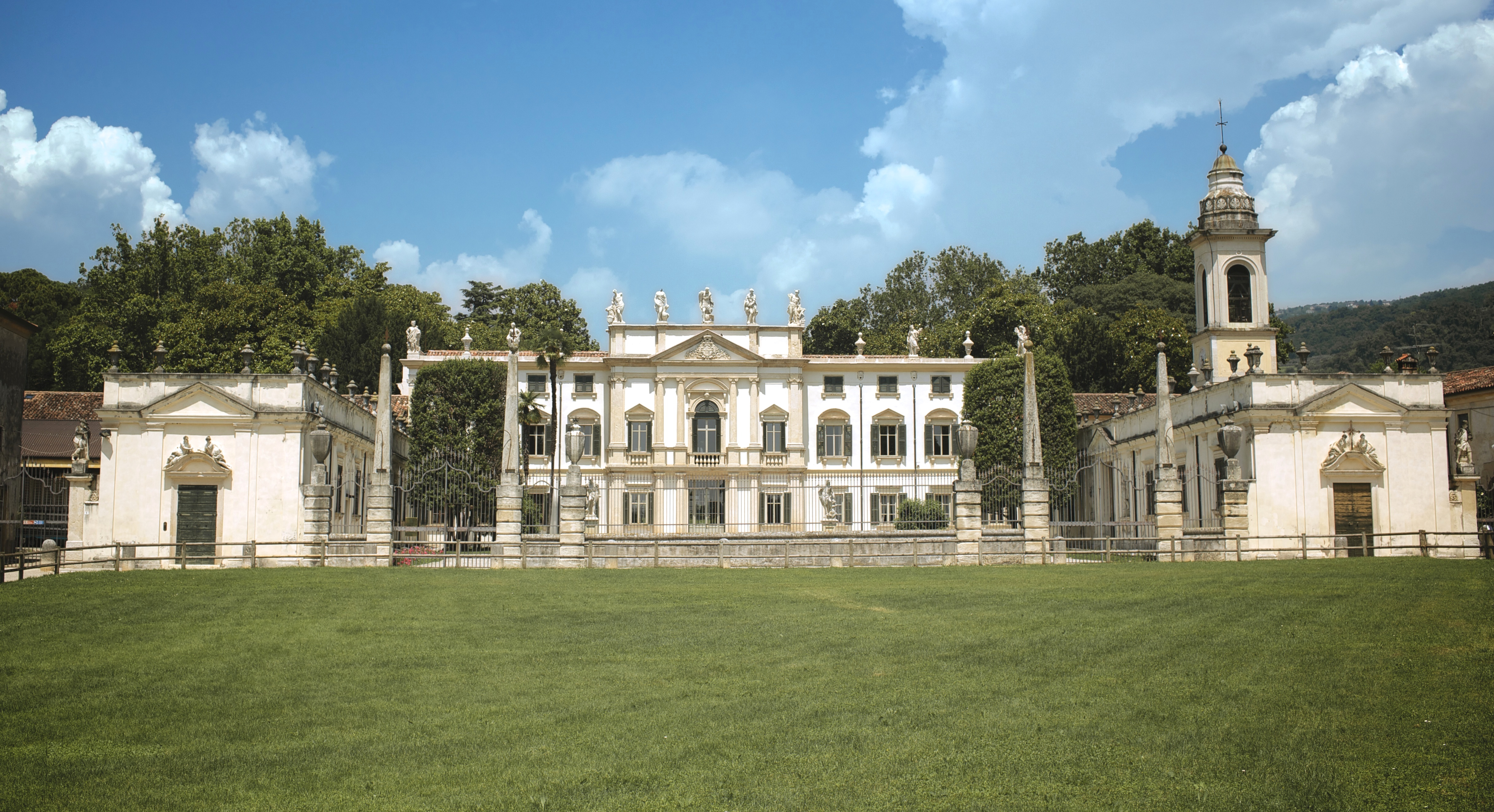 Villa Mosconi Bertani - XVIII century estate - Via Novare - Arbizzano di Negrar Verona Italy